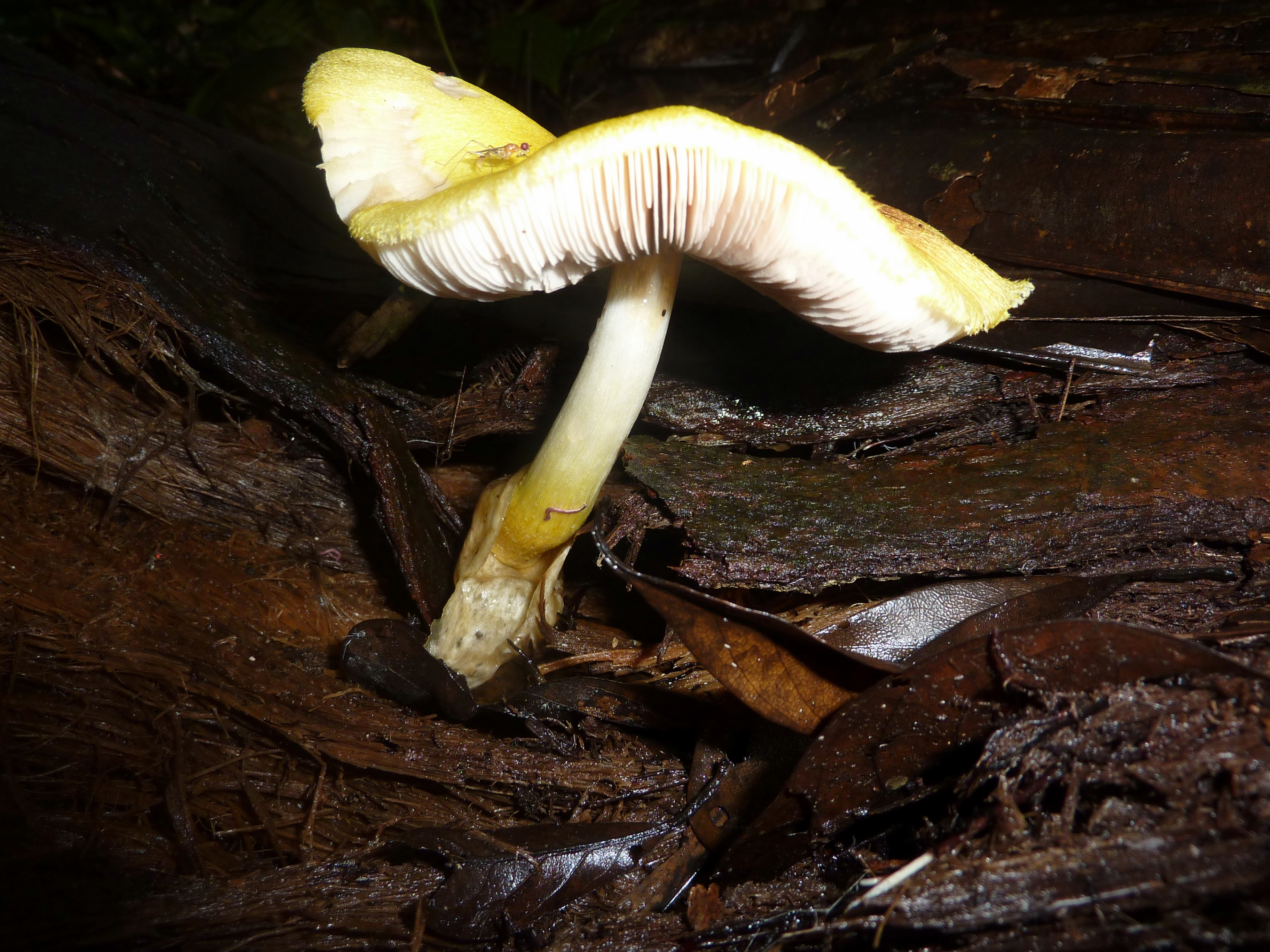 A fruit body of the agaric fungus Volvariella bombycina var. flaviceps (Murrill) Shaffer. Photographed in Gamboa, Balboa District, Panama Province, Panama. "Creciendo en el tronco de una palmera muerta"